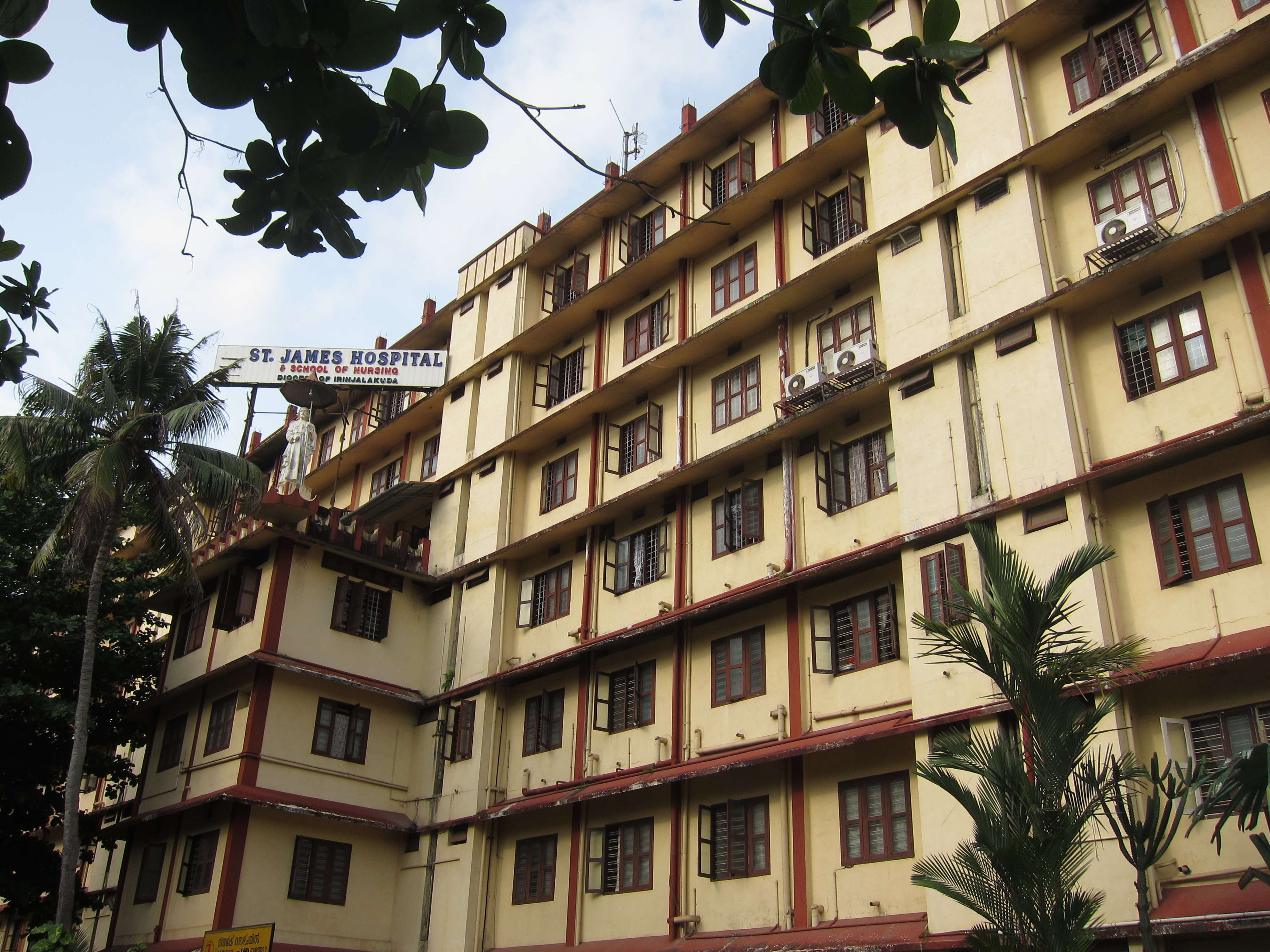 Chalakudy - St. James Hospital, Thrissur District